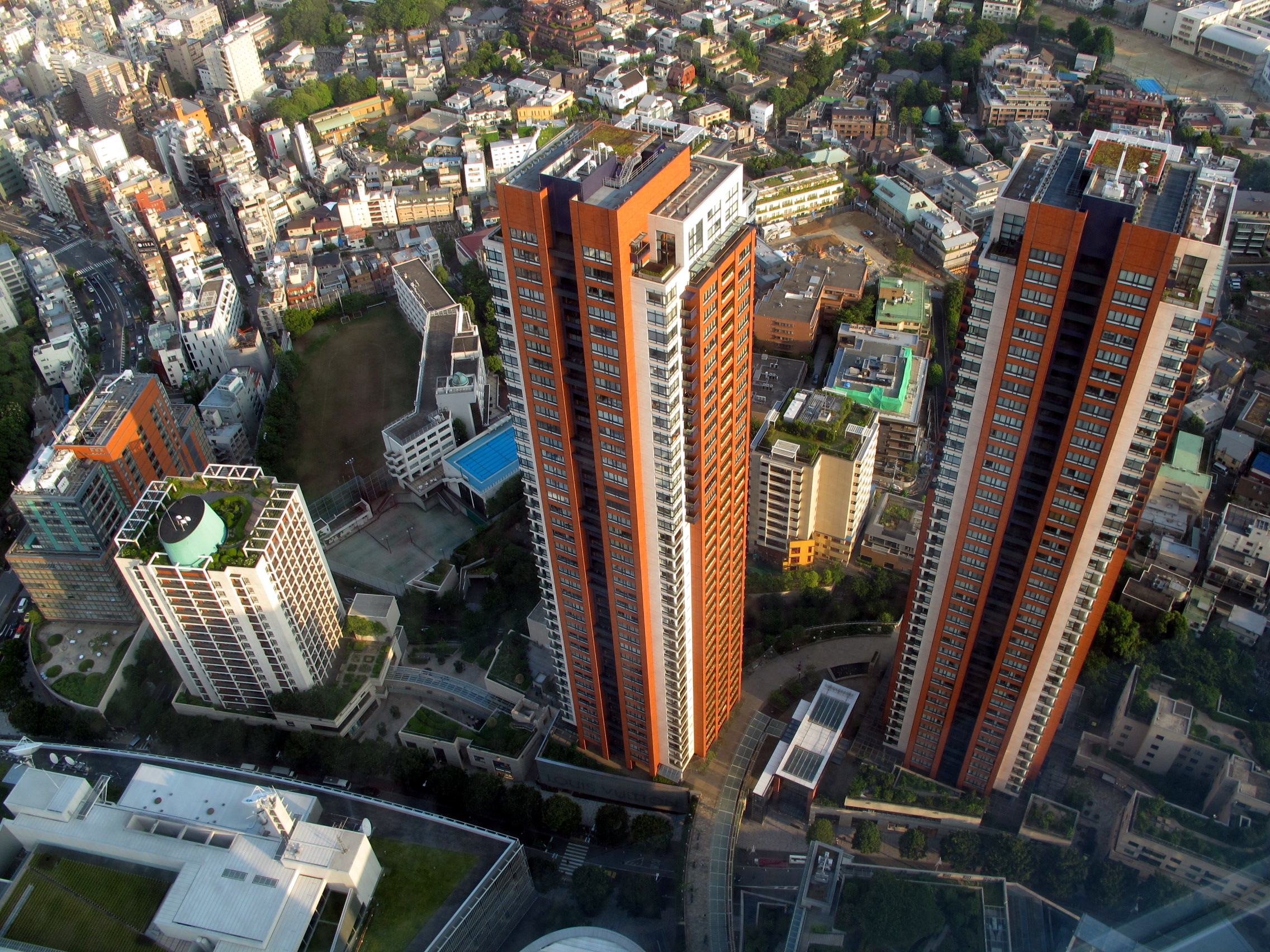 Roppongi Hills Residences